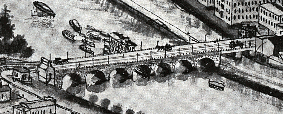 Aerial view of New Brunswick, NJ, 1910